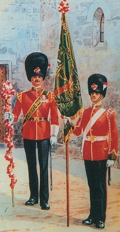 A drummer and sergeant drummer (drum major) of the Northumberland Fusiliers. The drummer holds the Drummer's Colour. The staff, colours, and headdress of both are decorated with red and white roses.